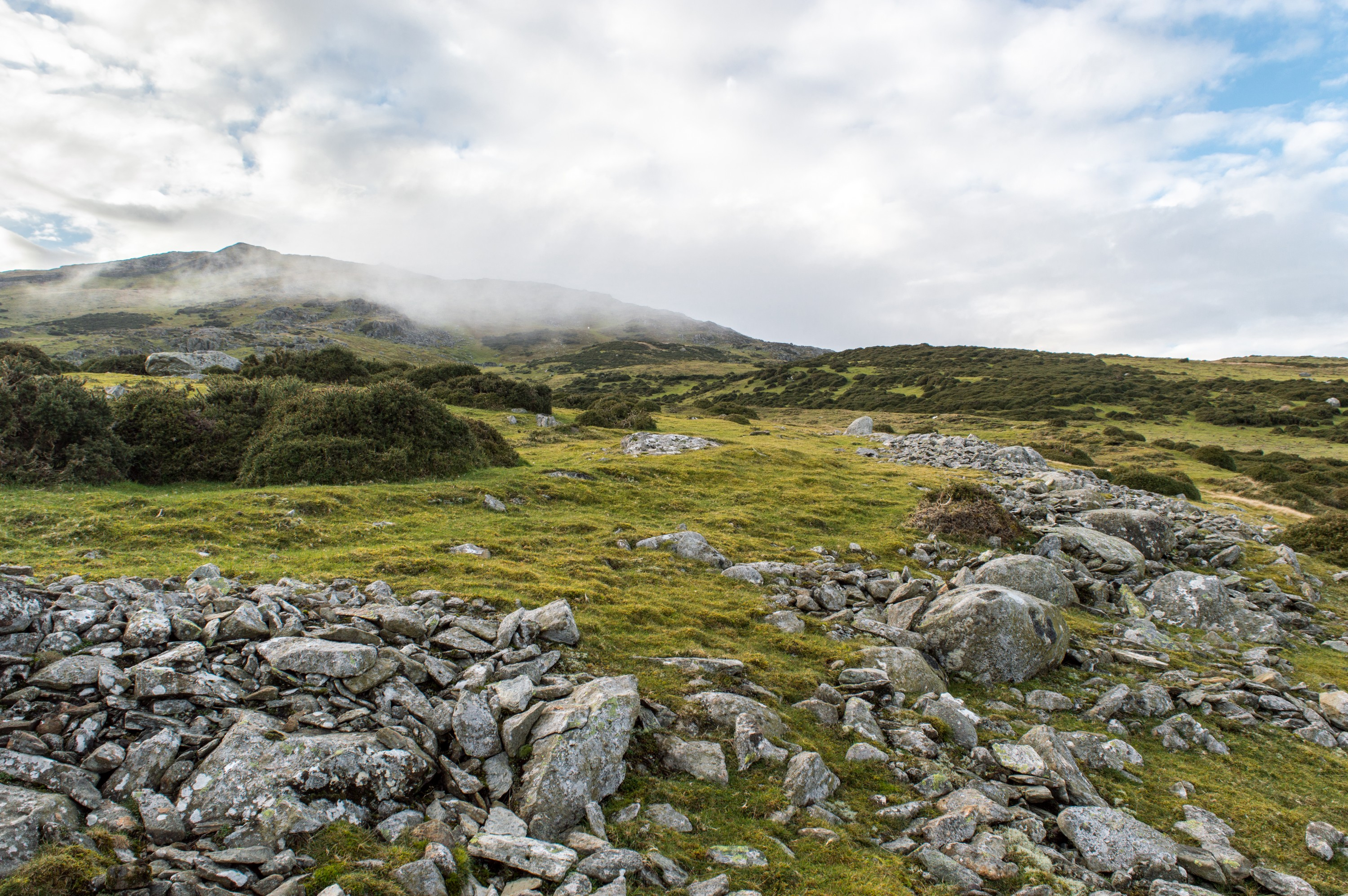 The remains of a defensive, inner stone wall at Caer Bach hillfort.